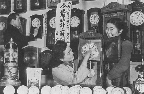 DST(Summer time) on 3 April 1949 in Japan